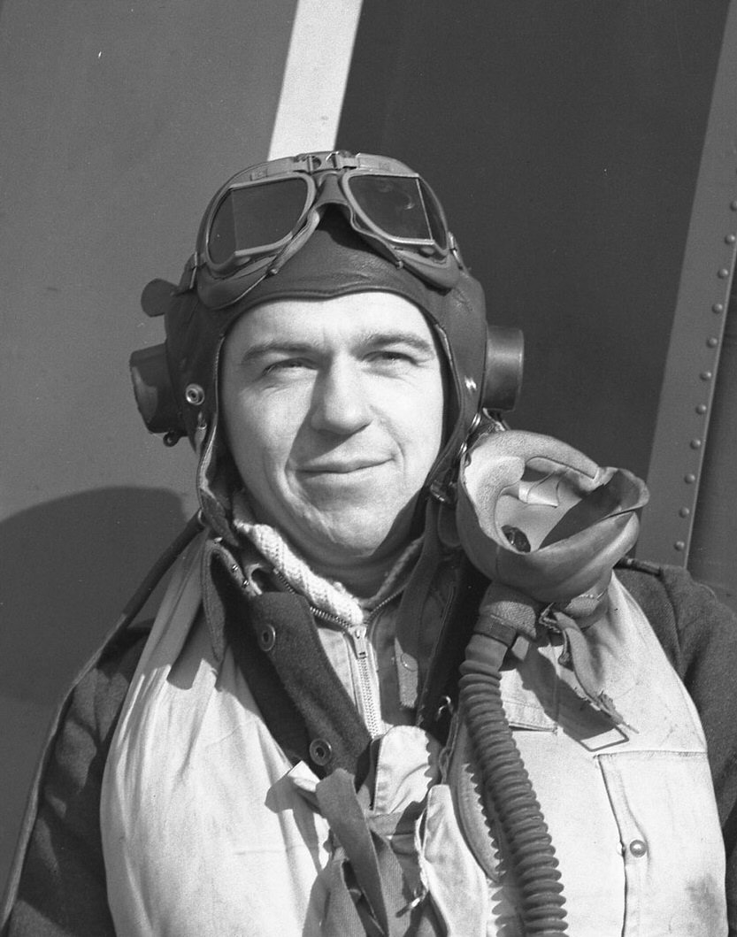 Squadron Leader James Easson Hogg. CO 438 Sqn RCAF 1945 Killed in flying accident on 23 March 1945